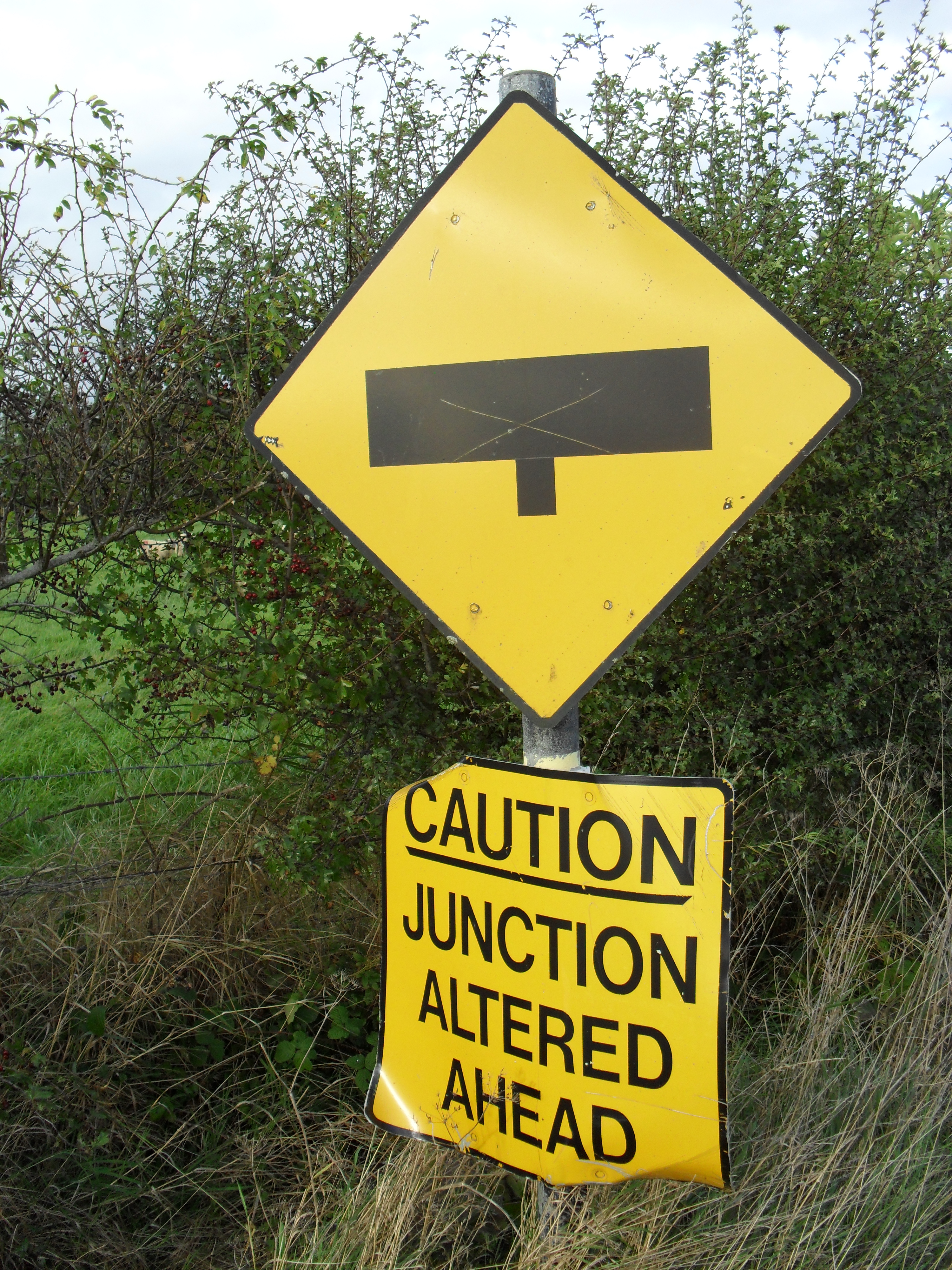 Caution